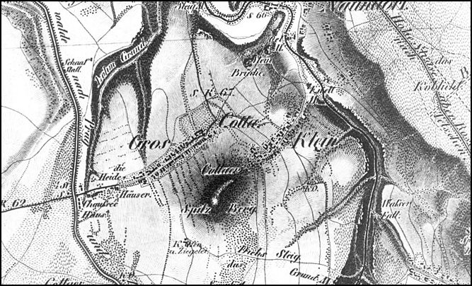 Cotta and the Cottaer Spitzberg in an topographic atlas from 1821